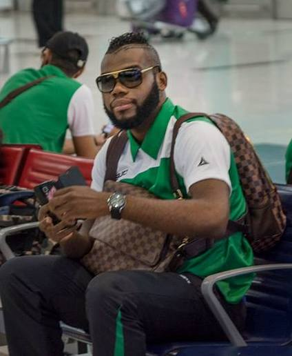 Gilles Mbang Ondo with Diba Al Hisn Club before leaving for training camp in Germany. ; Dubai Airport, Dubai